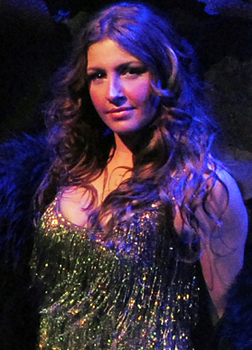 Helena Paparizou performing in Athens at Diogenis Studio in winter season 2011